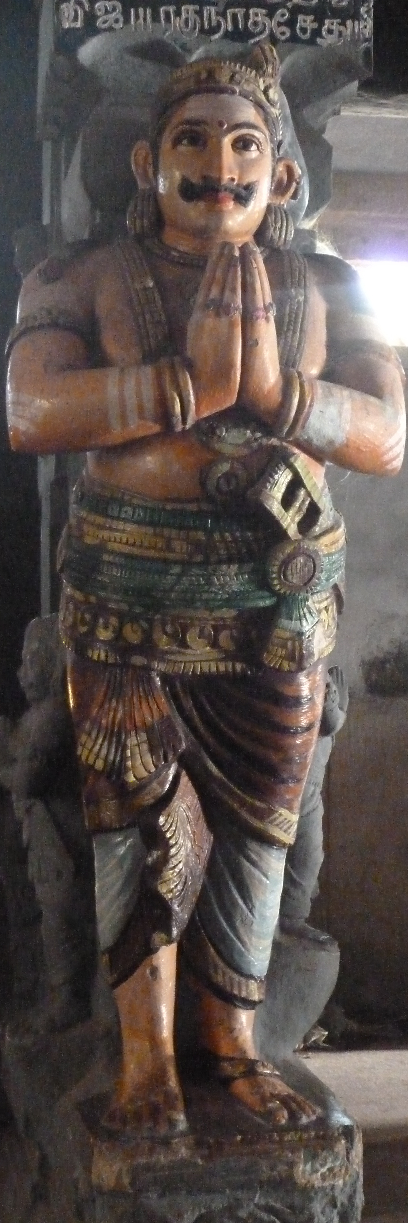 Vijayaraghunatha Sethupathi. The statue is in Rameswaram shiva temple